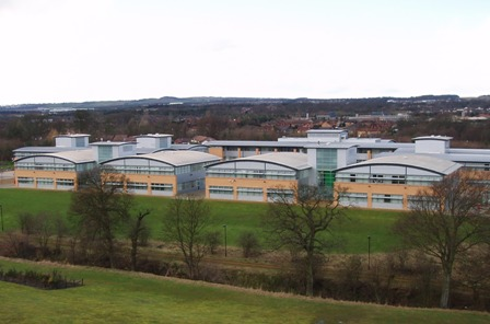 Source- Michael Westwater